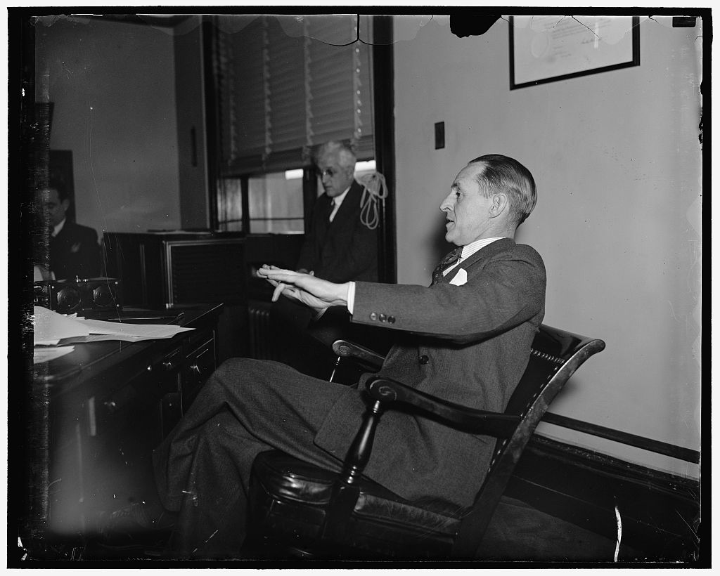 Marriner Eccles, Chairman of the Federal Reserve Board, pictured as he held a press conference in Washington, DC. No know restrictions on this image per Library of Congress